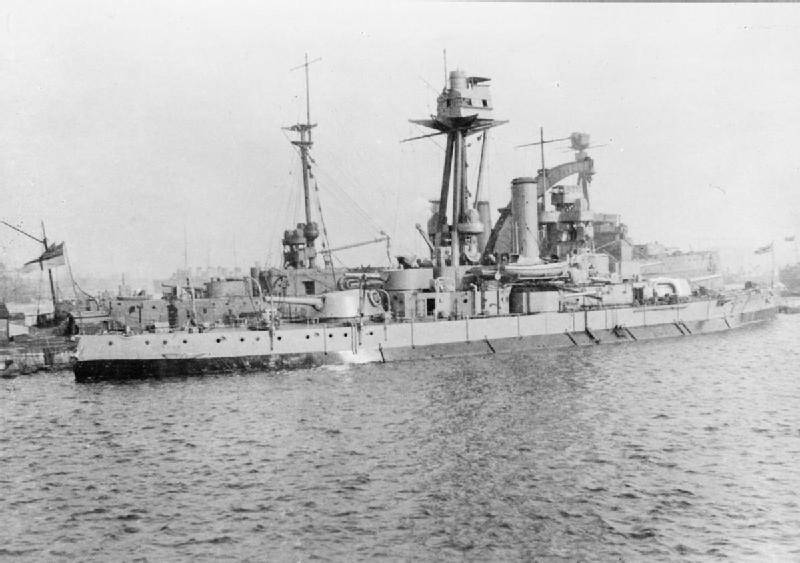 British monitor HMS Gorgon.